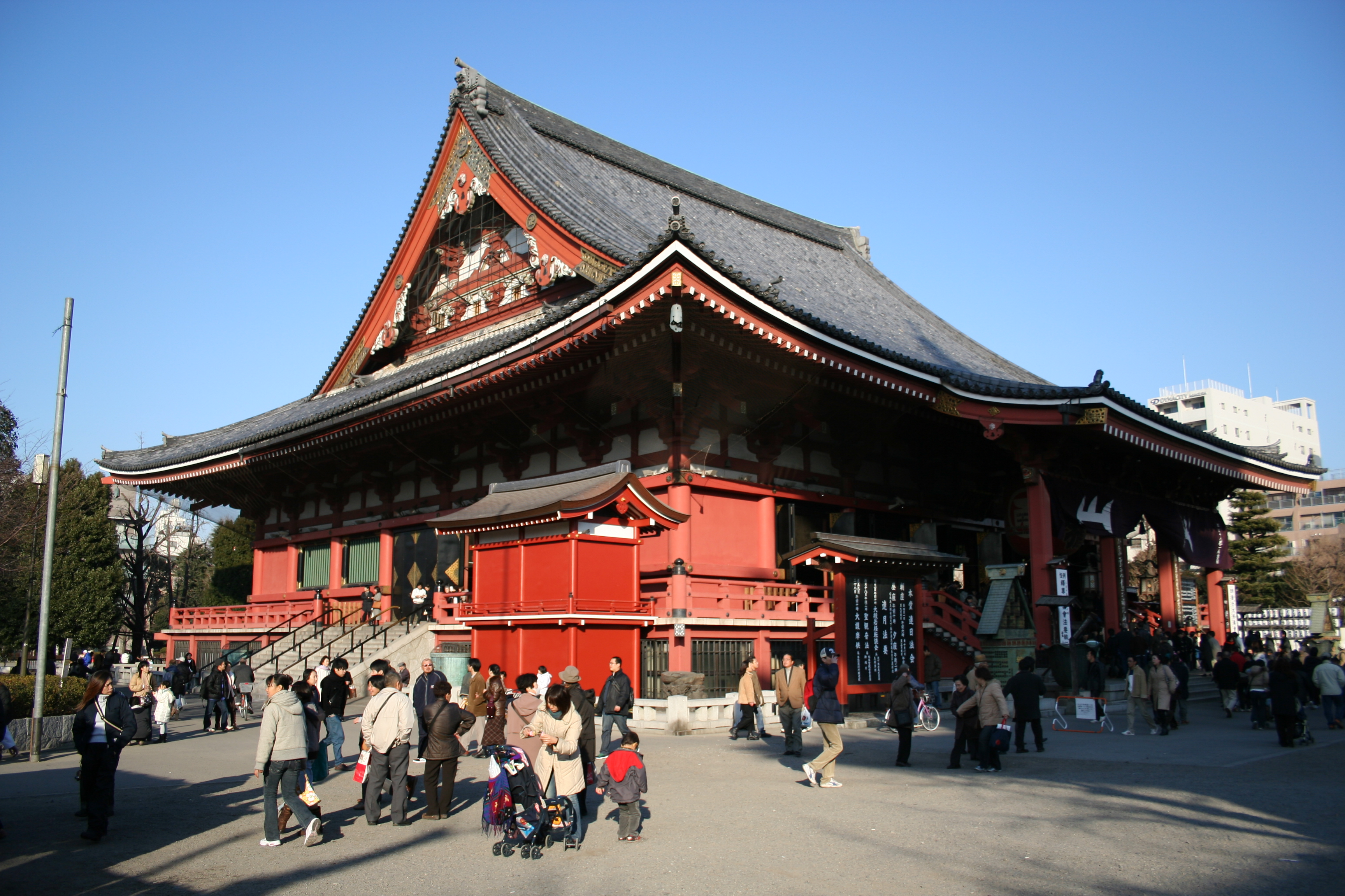 View of the main hall of Sensō-ji buddhist temple in Tokyo, Japan. Taken by myself, Eckhard Pecher, on January 29, 2006. Mention of my name is not necessary within the Wikis.